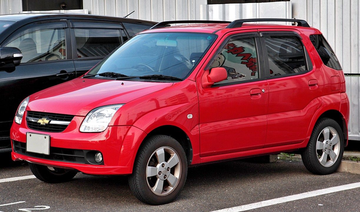 Chevrolet Cruze